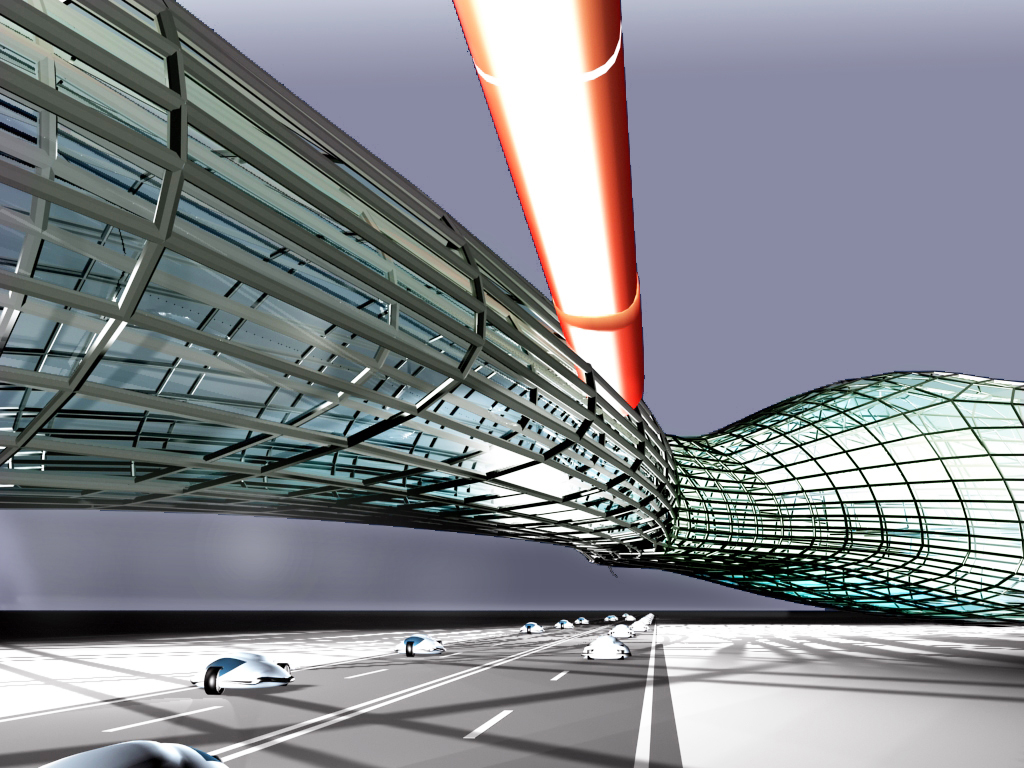 An image of POL Culture and Art Centre Project